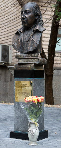 Korzhev Ivan. Novikov N.I.